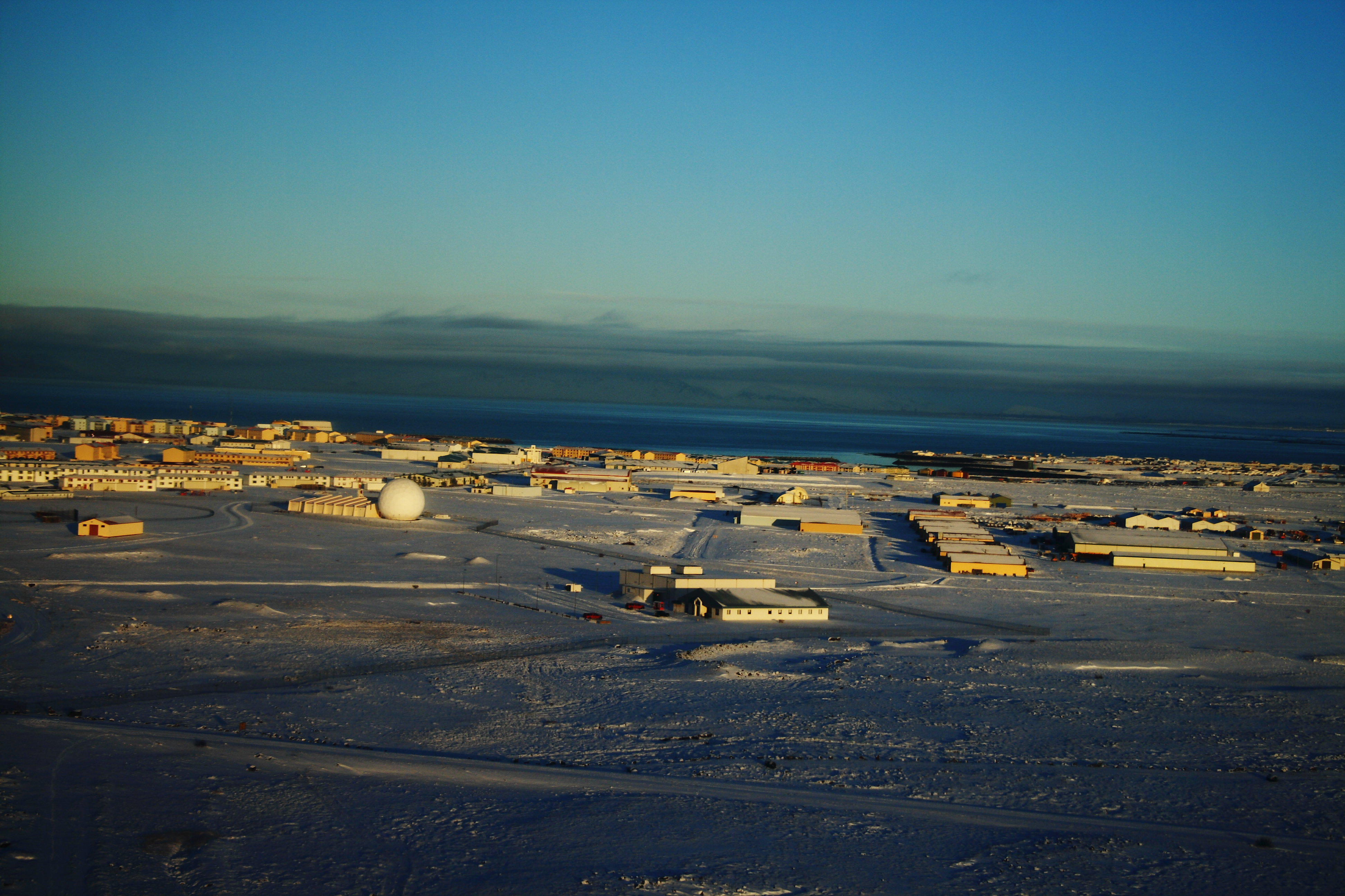 Aerial view of Keflavík